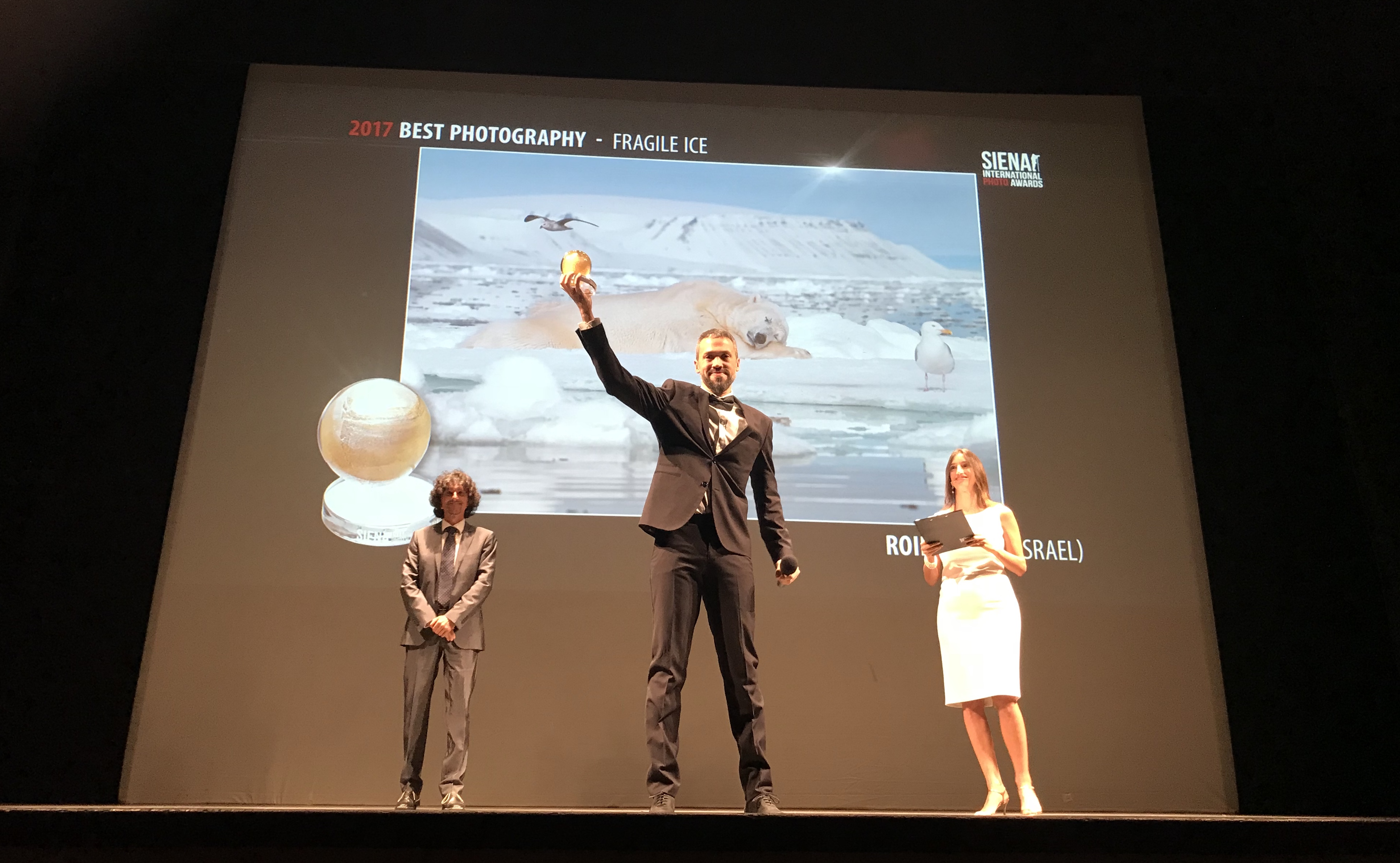 Roie Galitz receives award in Siena International photography awards for his image "Dreaming of Sea Ice" in October 2017